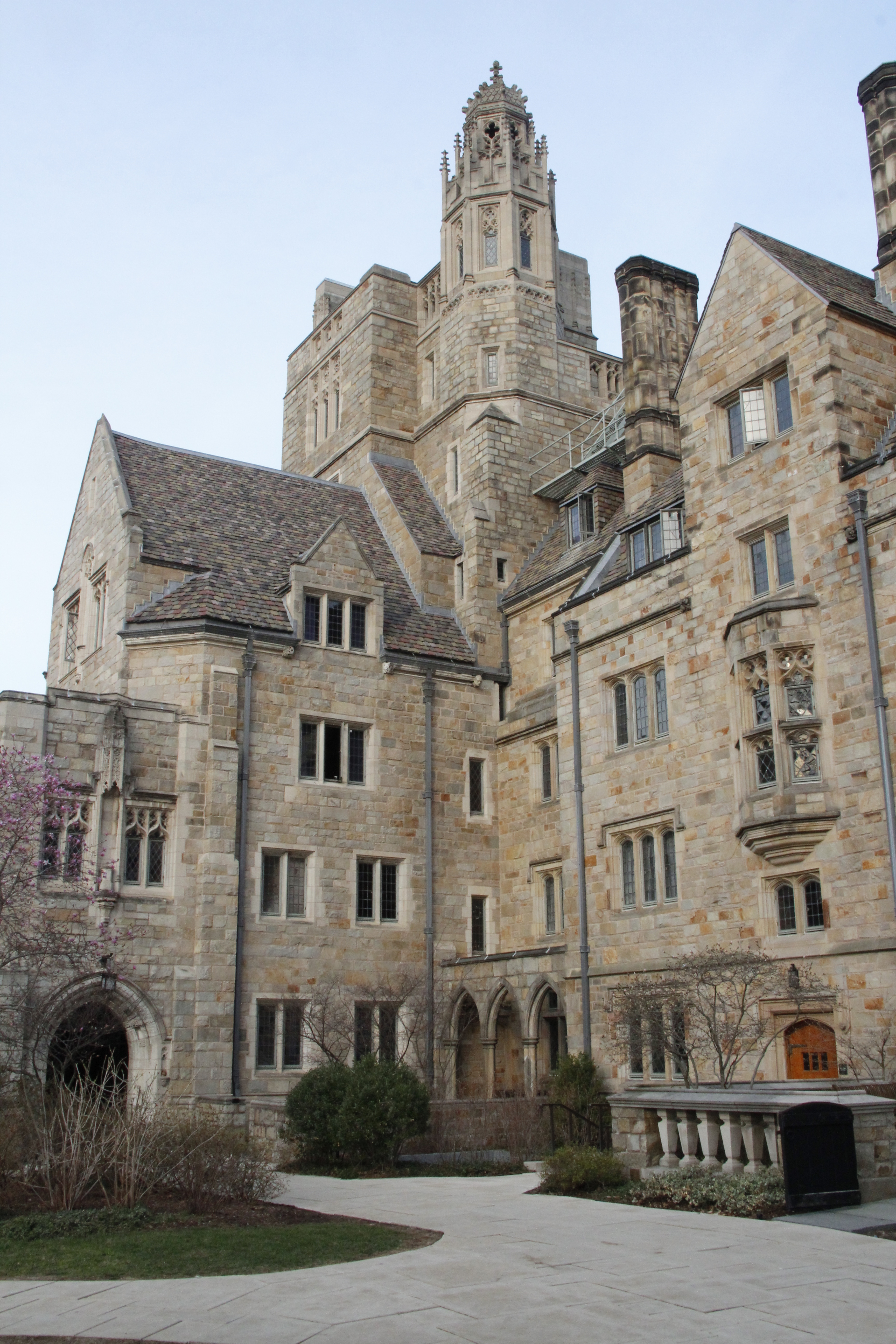 East side of building massing Branford Court in the Memorial Quadrangle (part of Branford College), Yale University, New Haven, CT